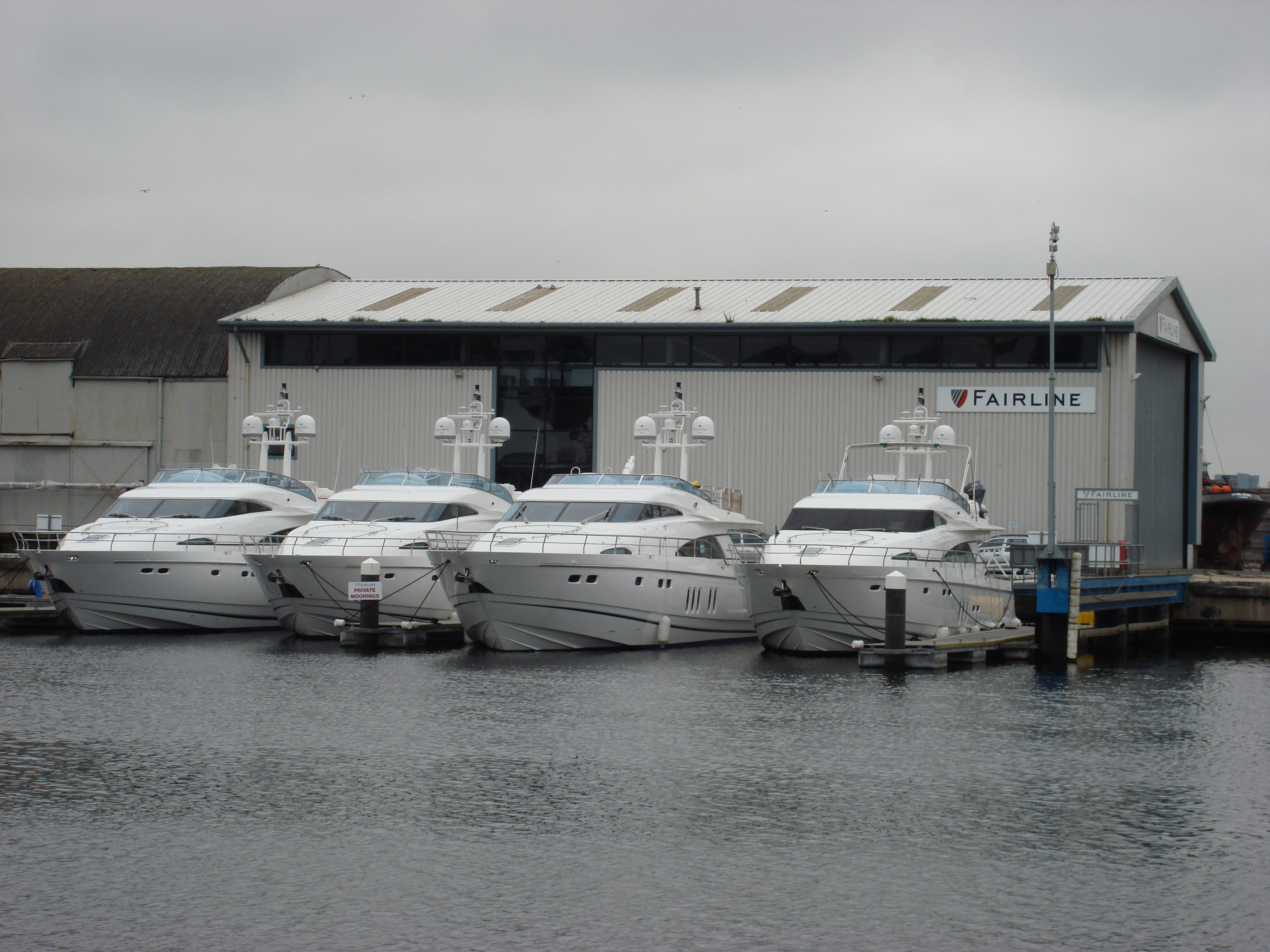 4 Fairline Squadron Yachts outside Fairline's Ipswich testing facility. The Fairline Squadron was first launched in 1991 with the Squadron62, a "large yacht" range